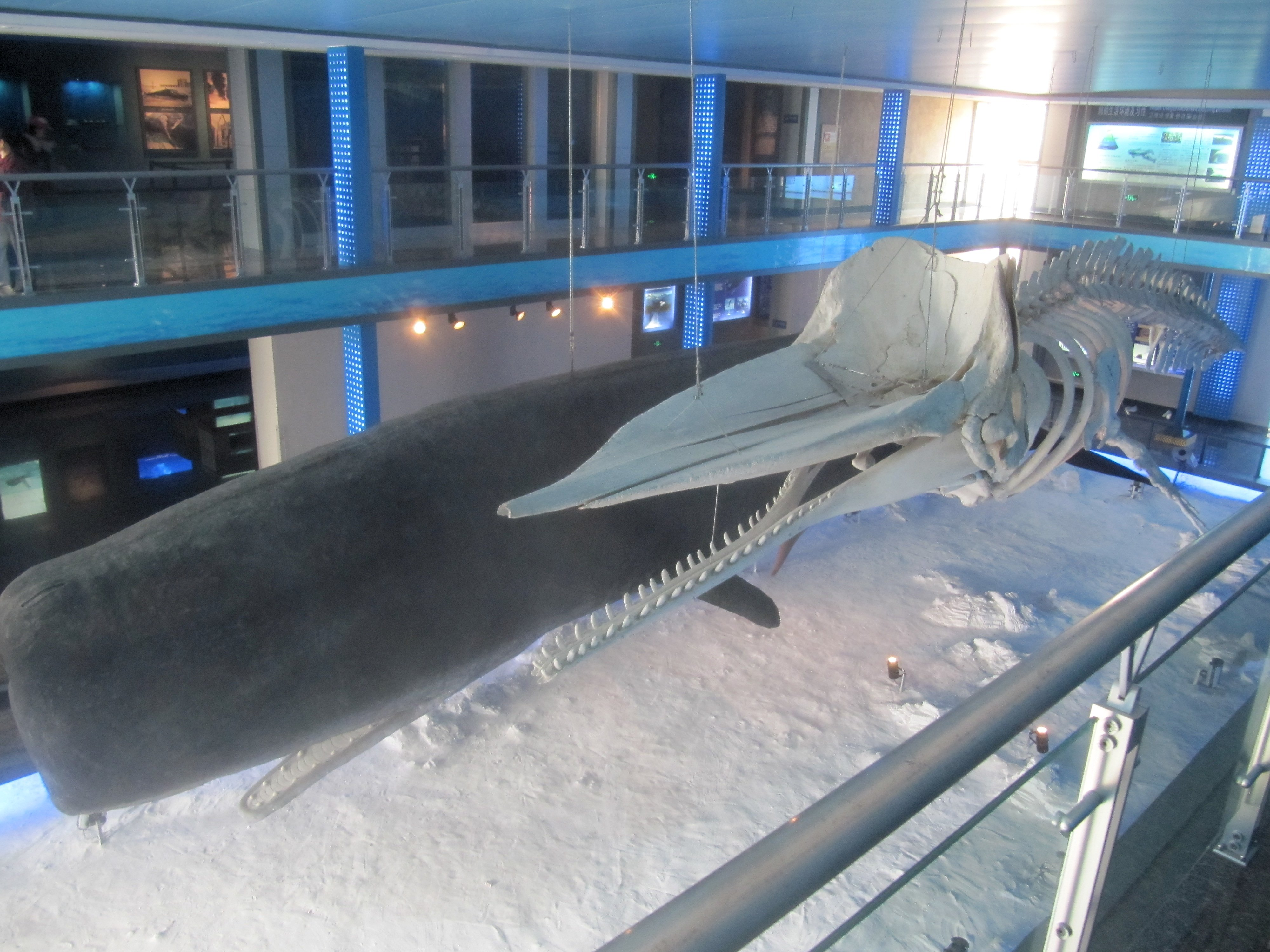 Sperm whale skeleton, beside it's external envelop. We can on the picture the pink phallus. Sperm whale museum, Liugong Island, Weihai, Shandong province, China